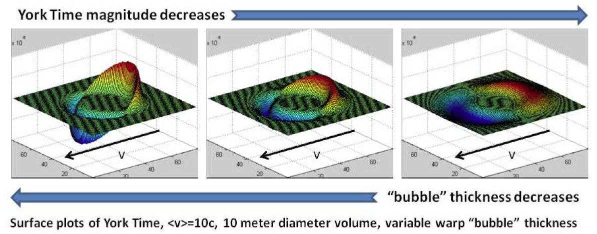 Surface plots of York Time effects